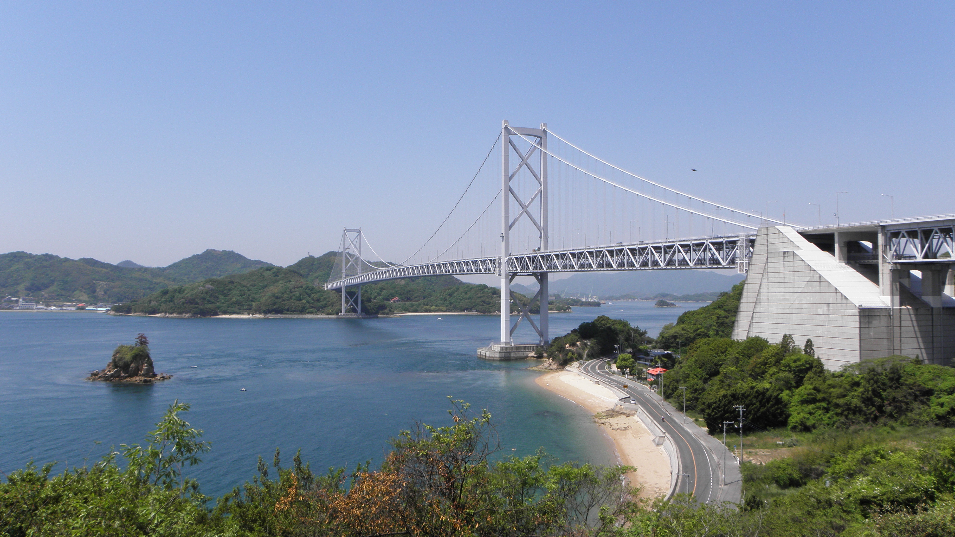 Innoshima Bridge taken from Mukaishima